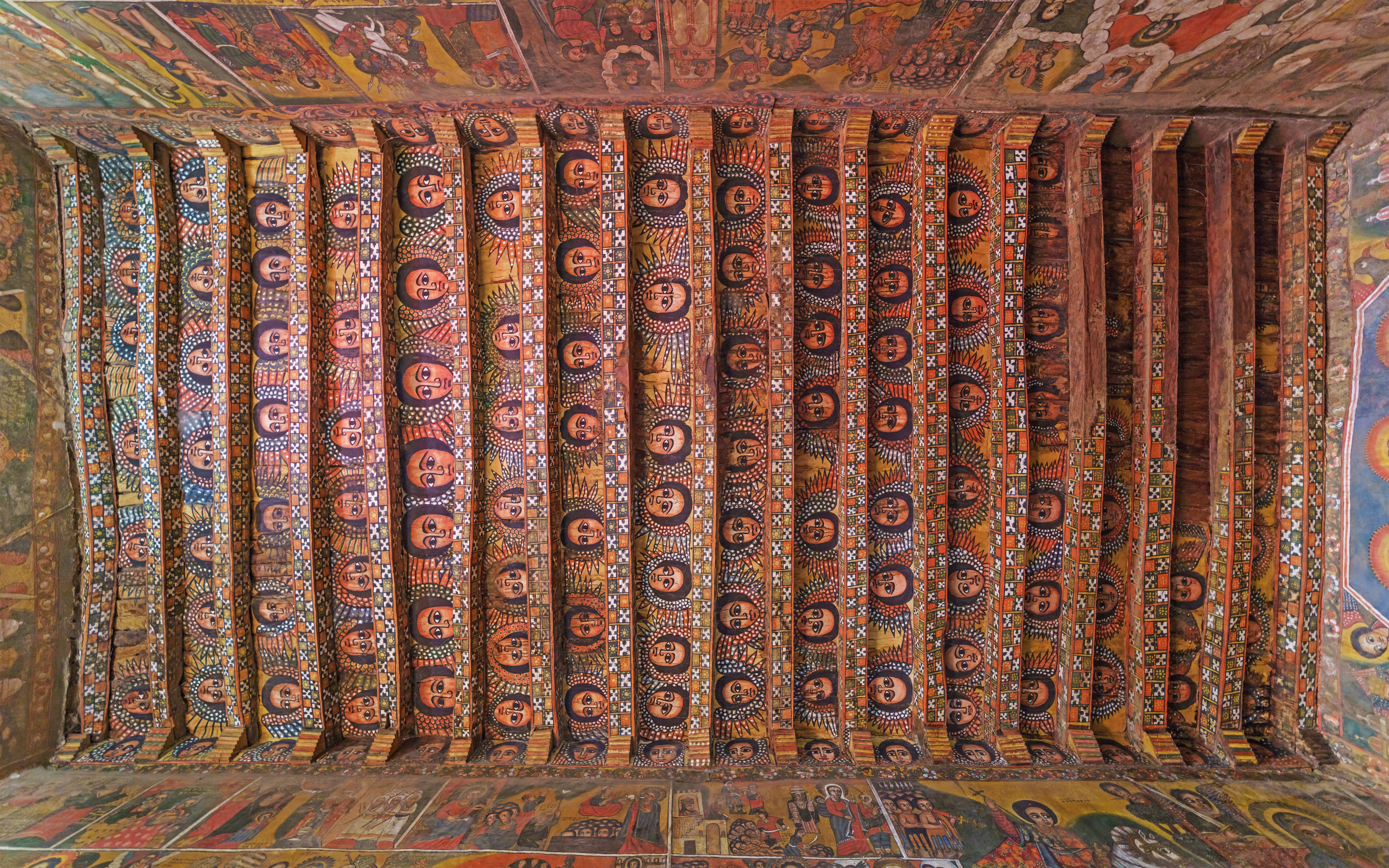 Monastery of Debre Berhan Selassie in Gondar, Ethiopia